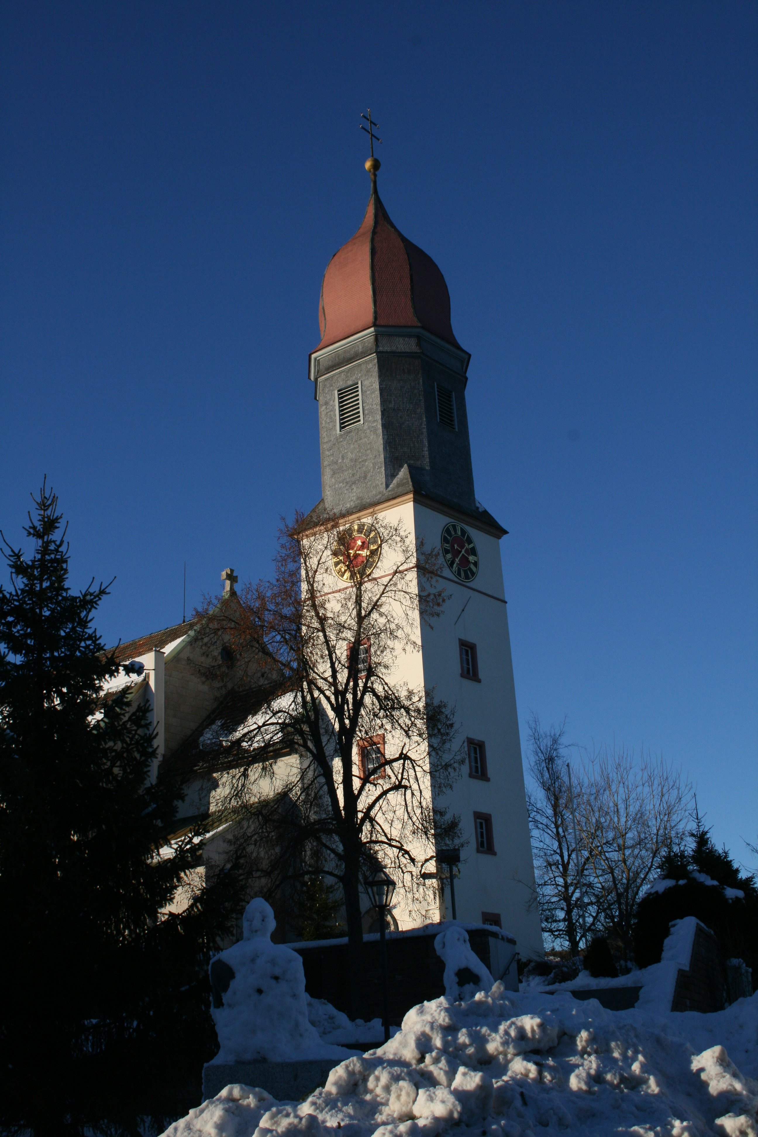 Catholic Church of St. Michael